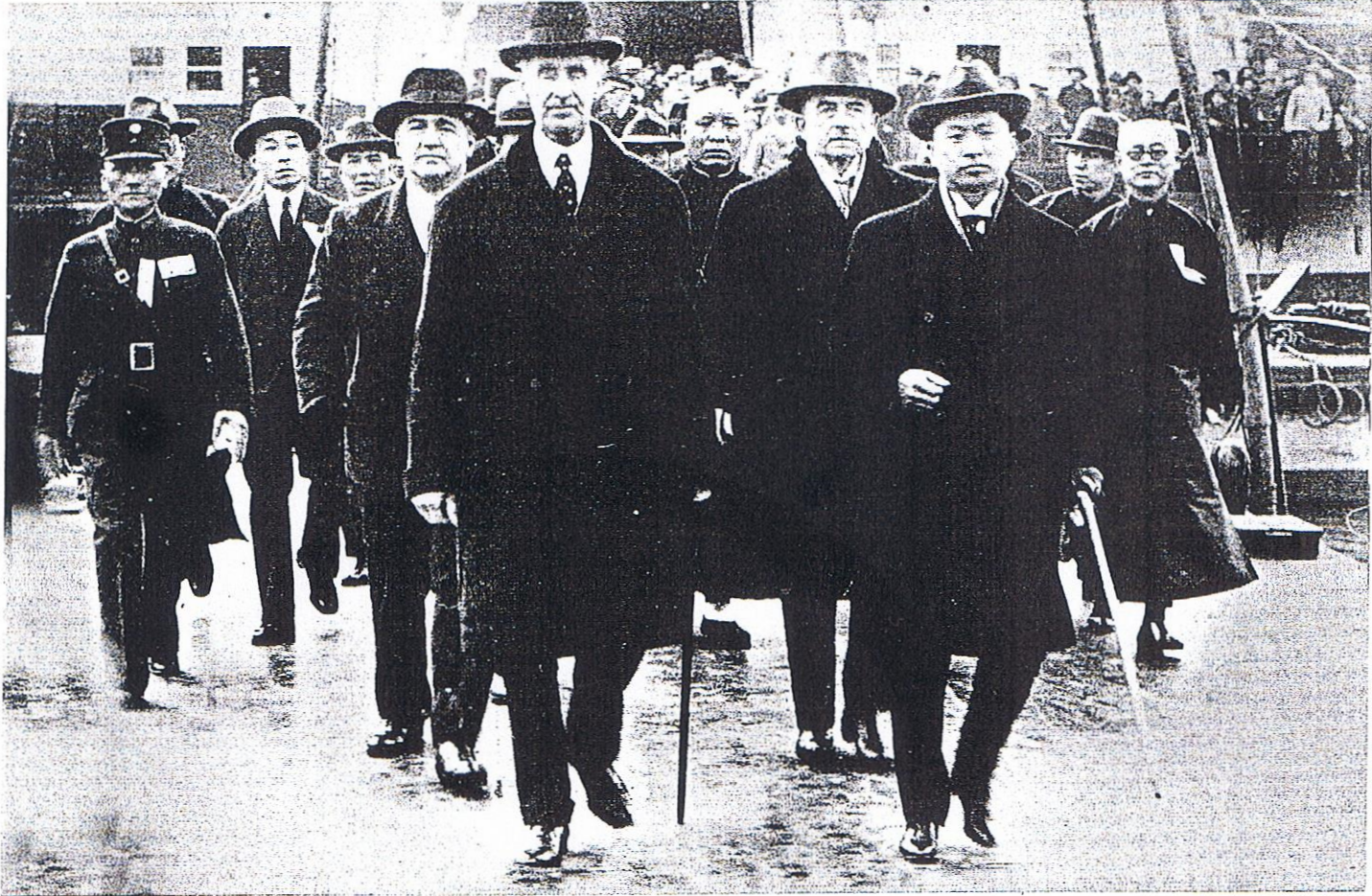 April 21, 1932 - The League of Nations Commission of Inquiry arrives in Dalian, led by Victor Bulwer-Lytton, 2nd Earl of Lytton and V.K. Wellington Koo - Front row, left to right. Back row, far right: Zhuang Lefeng.